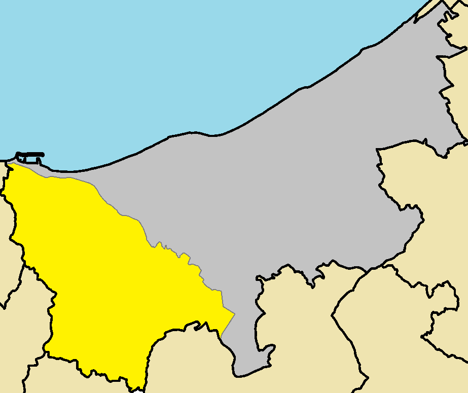 Prodromi in Polis Municipality.